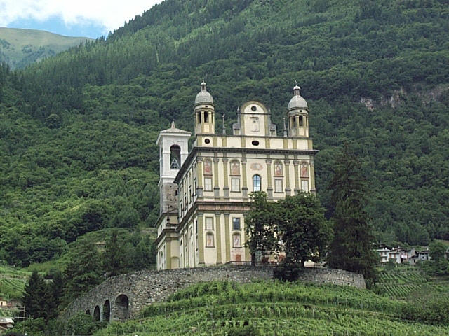 View of the church of Tresivio, built as a vow to the Madonna against the black death.